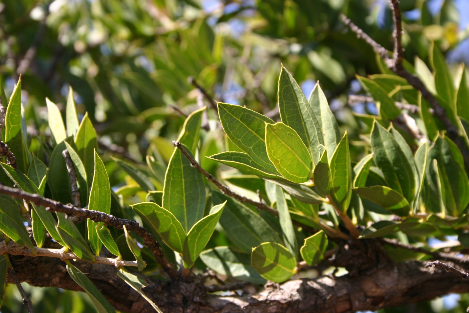 Foliage of a Spine-leaved monkey-orange near Buffelspoort Dam, Marikana, South Africa